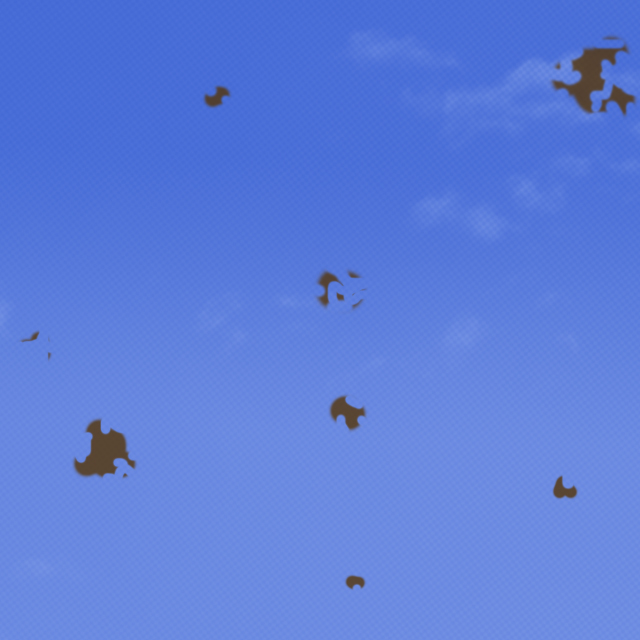 Floaters caused by Hyaloid artery